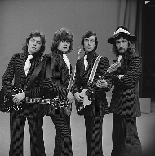 Paper Lace in AVRO's TopPop (Dutch television show) in 1974